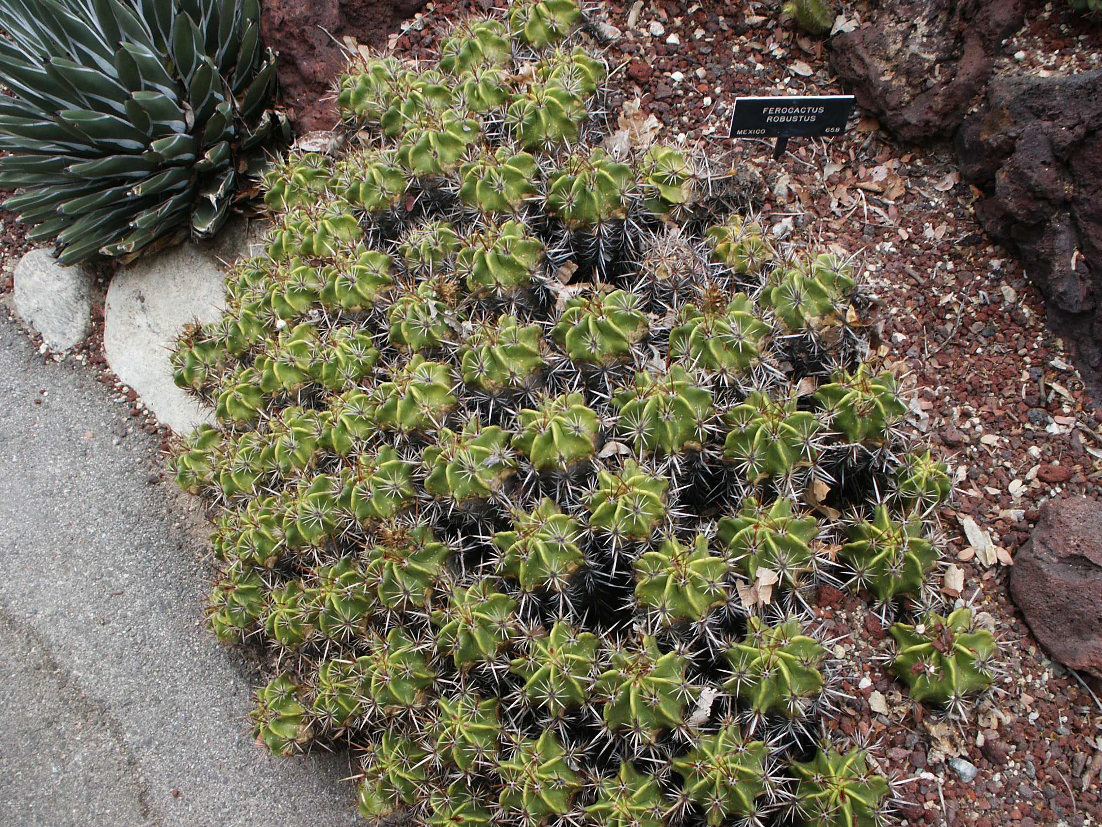 Ferocactus robustus, Huntington Library Desert Garden, May 2009